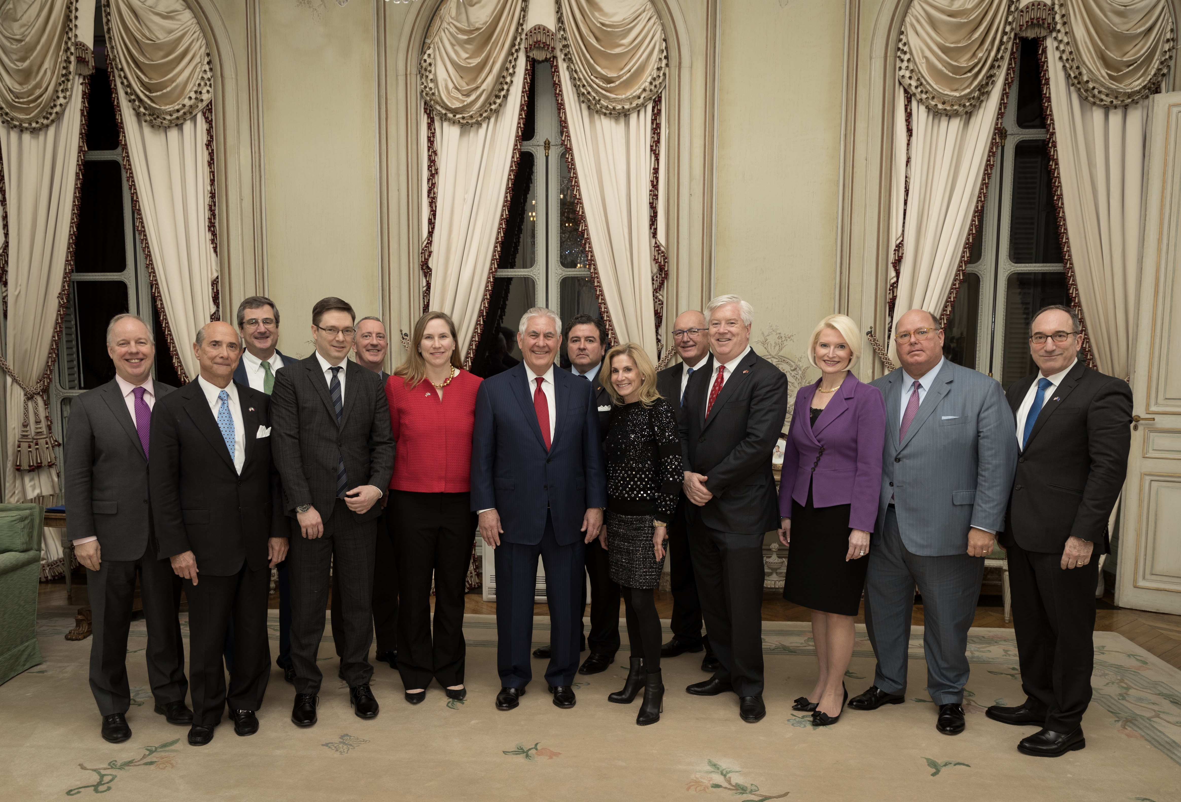 U.S. Secretary of State Rex Tillerson poses for a photo with thirteen U.S. Ambassadors and Chargé d'Affaires during a regional Chiefs of Mission meeting (L to R) Kent Logsdon, Chargé d’Affaires a.i., U.S. Embassy in Germany, Lewis M. Eisenberg, U.S. Ambassador to the Italian Republic, and the Republic of San Marino, Matthew Lussenhop, Chargé d’Affaires a.i., U.S. Embassy in Belgium, Reece Smyth, Chargé d’Affaires a.i., U.S. Embassy in Ireland, Thomas Williams, Acting DCM, U.S. Embassy in the United Kingdom of Great Britain and Northern Ireland, Kerri S. Hannan, Chargé d’Affaires a.i., U.S. Embassy in Luxembourg, Richard Duke Buchan III, U.S. Ambassador to Spain and Andorra, Jamie D. McCourt, U.S. Ambassador to the French Republic and Principality of Monaco, Peter Hoekstra, U.S. Ambassador to the Netherlands, George E. Glass, U.S. Ambassador to the Portuguese Republic, Callista Gingrich, U.S. Ambassador to the Holy See, Edward “Ed” McMullen, Jr., U.S. Ambassador to Switzerland and Liechtenstein, Adam Shub, Chargé d’Affaires a.i., U.S. Mission to the European Union in Paris, France on January 23, 2018. [State Department Photo/ Public Domain]